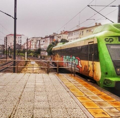 Train (type 350) at Queluz - Belas train station, Sintra line, Portugal